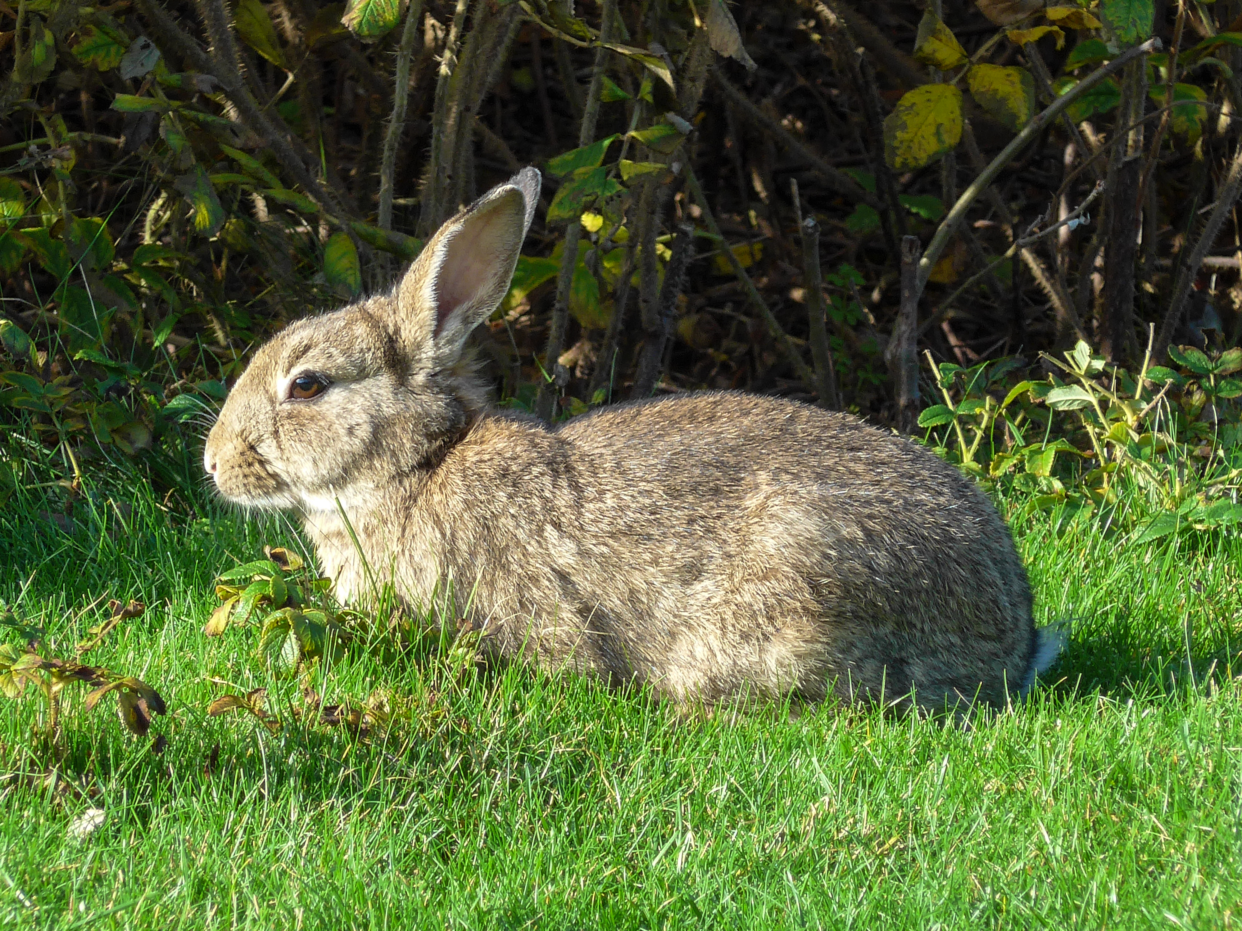 A wild rabbit in Nes, a village on the Dutch island of Ameland.